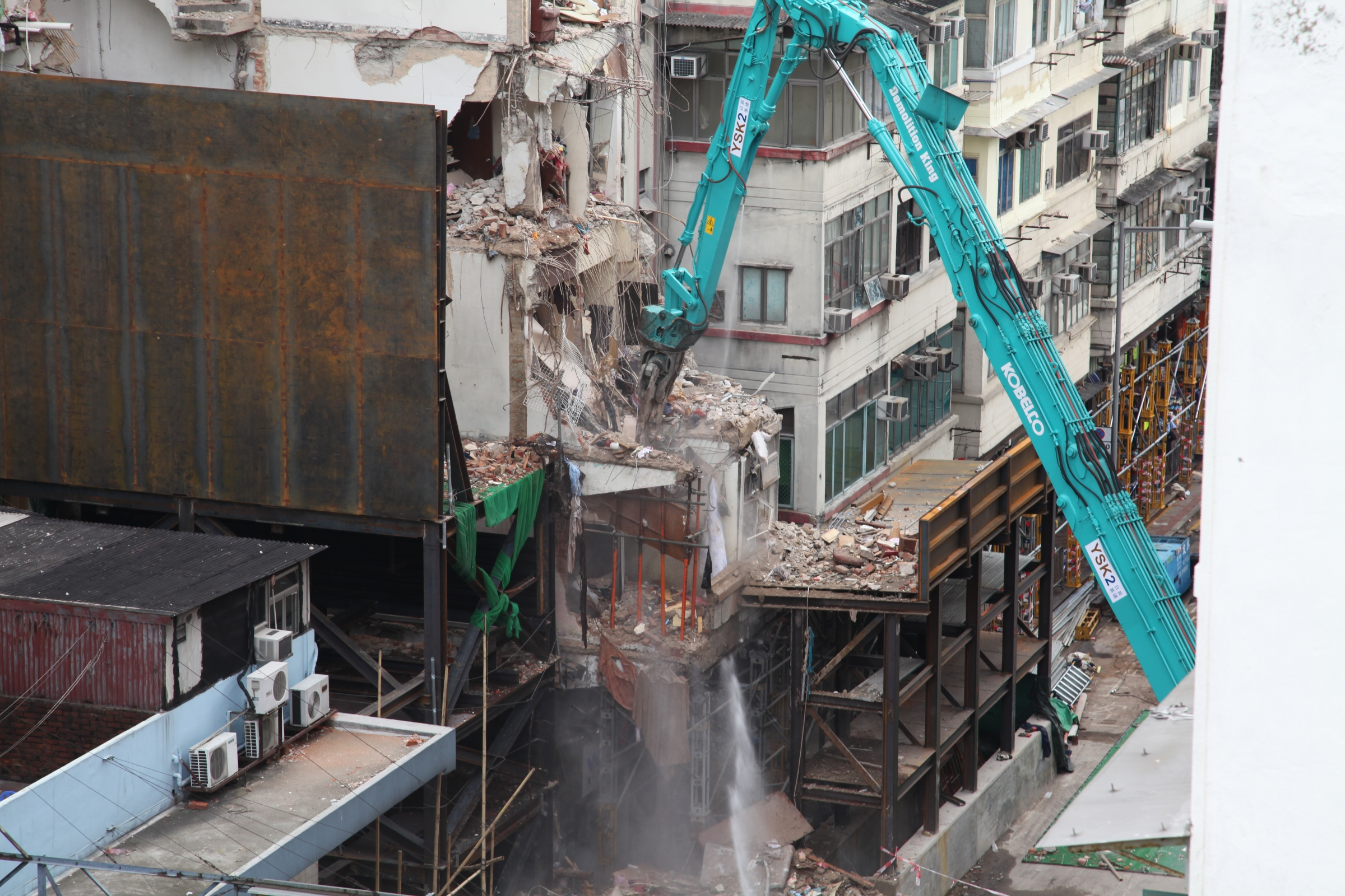 ccc 中文（香港）: 政府承辦商繼續利用大型機械為45H唐樓清除鬆脫的部分及面向馬頭圍道的部分。